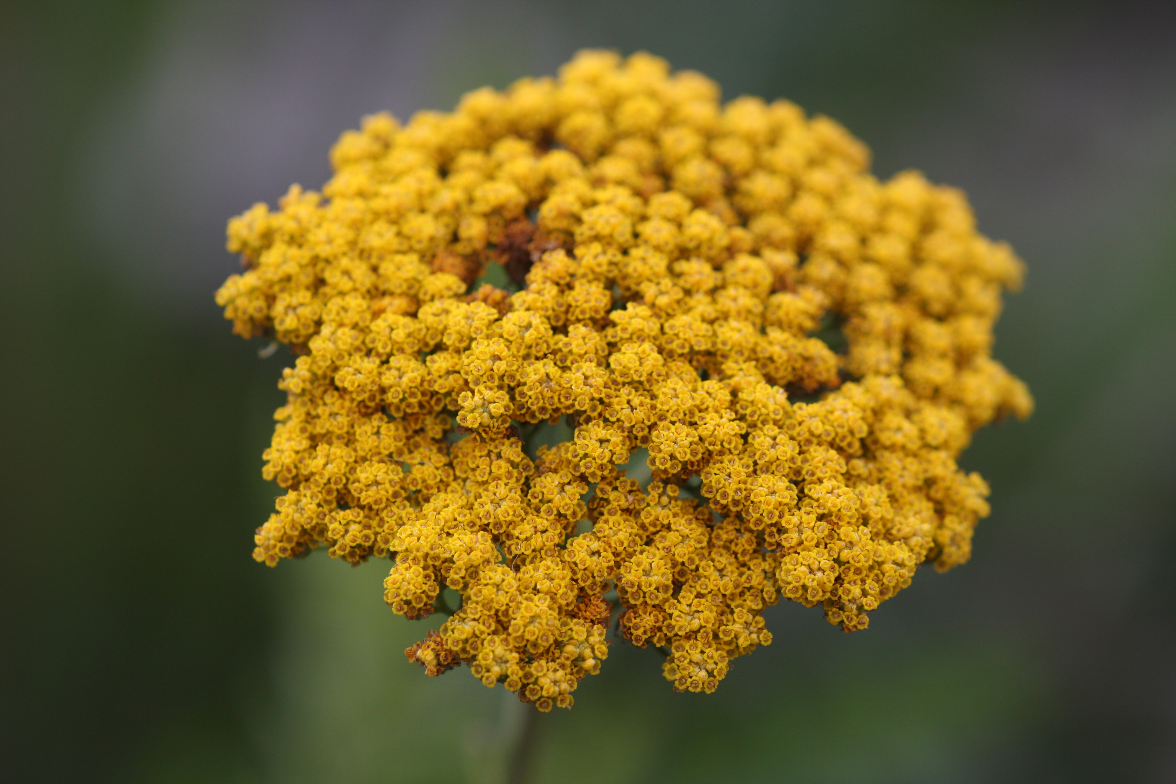 Macro shot of flowers of Achillea filipendulina growing in a garden.